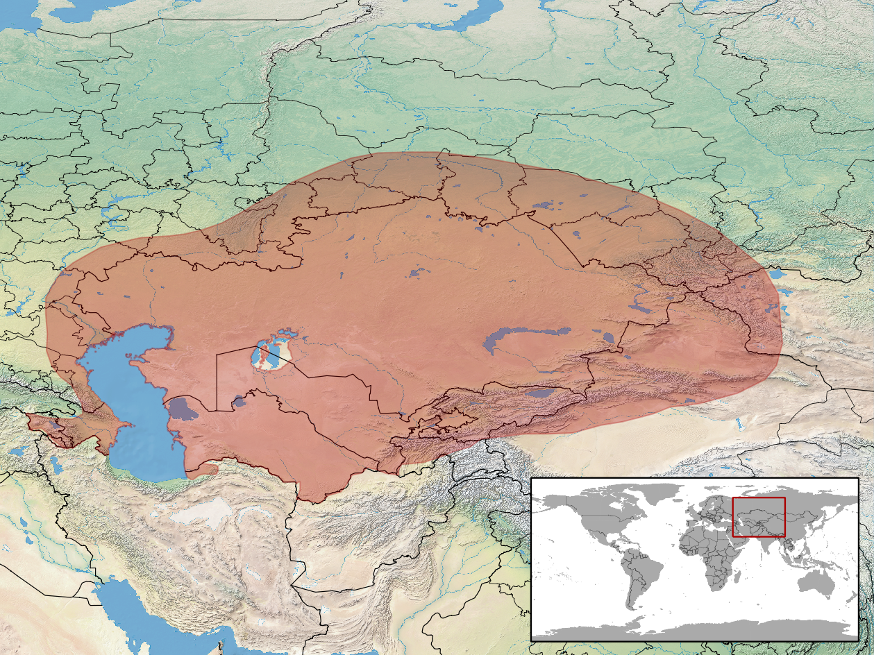 geographic distribution of Phrynocephalus helioscopus (Native: China; Iran, Islamic Republic of; Kazakhstan; Kyrgyzstan; Mongolia; Russian Federation; Tajikistan; Turkmenistan; Uzbekistan)